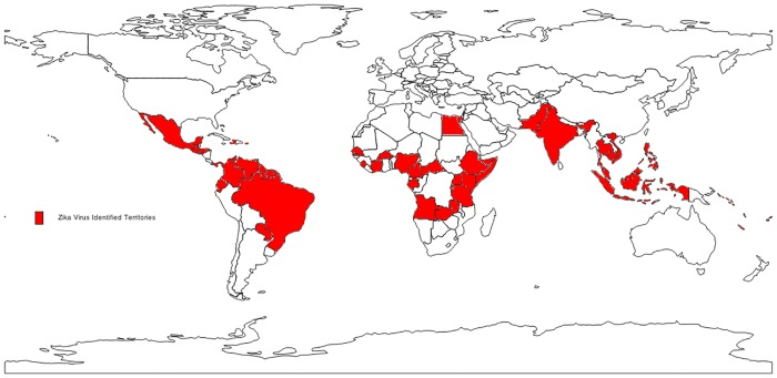 Source: Centers for Disease Control and Prevention [83].